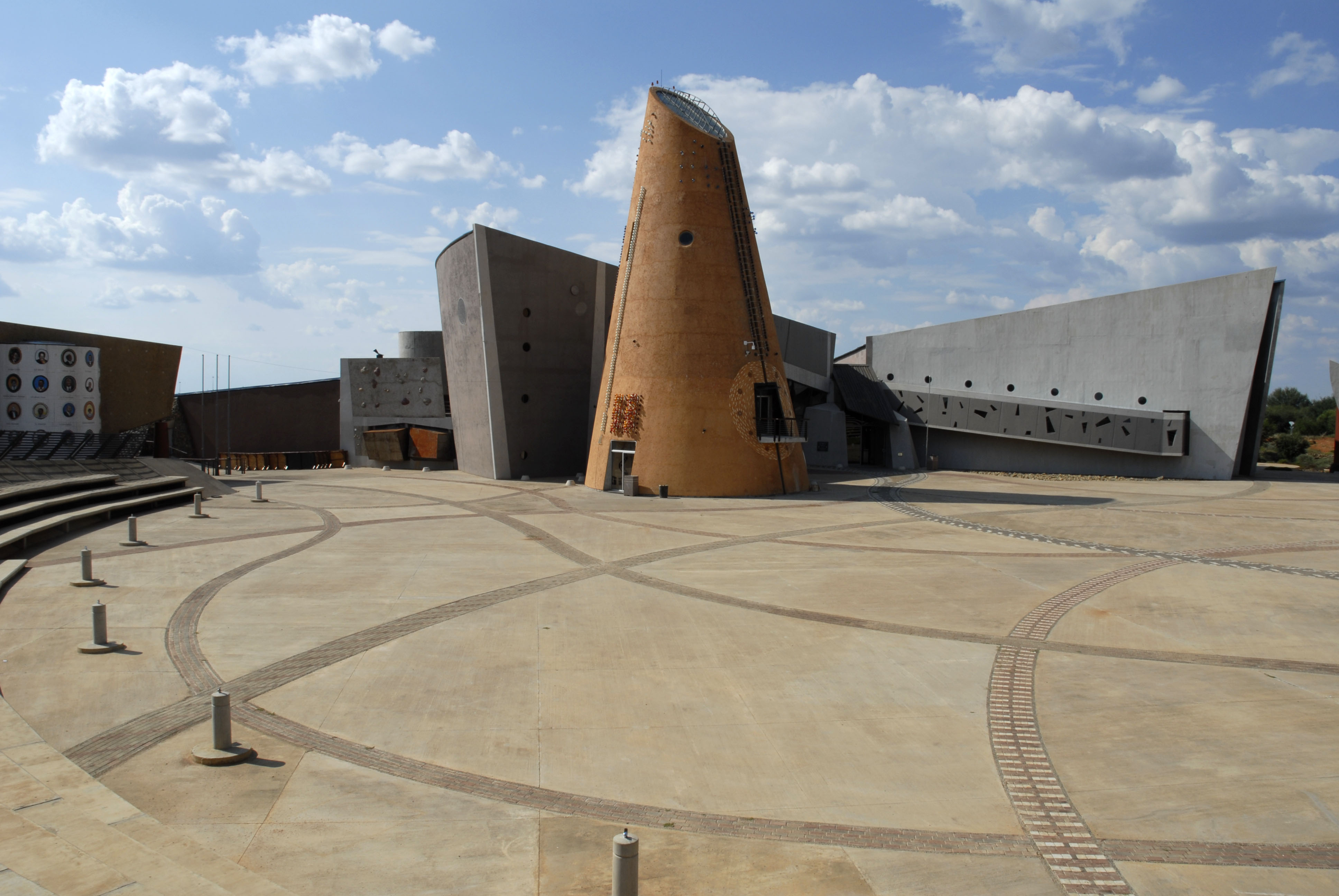 South Africa, Northern Cape Province, 2008: The eye-catching architecture of the buildings at the Northern Cape Provincial Legislature. Galeshewe, Kimberley